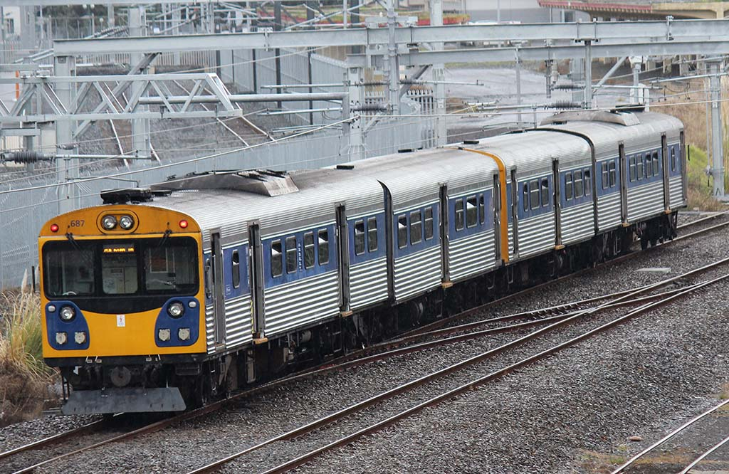 Diesel multiple unit ADK 687 trails a 4-car ADK set near Britomart Transport Centre on 16 June 2014.